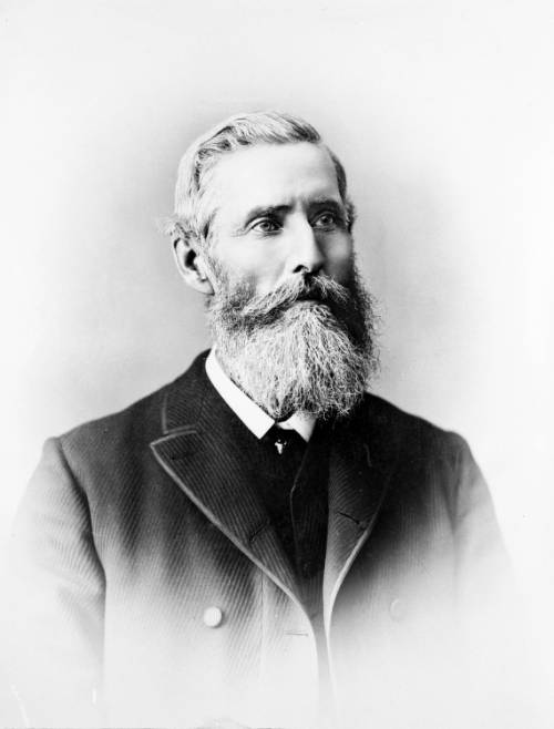 Studio portrait of Granville Stuart, 1883. L. A. Huffman, photographer. In the collection of the Montana Historical Society Photograph Archives, 981-260